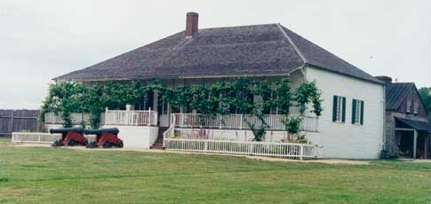 Twentieth-century reconstruction of the Chief Factor's house at Fort Vancouver National Historic Site, Washington. (Modified from original to crop off black border.)